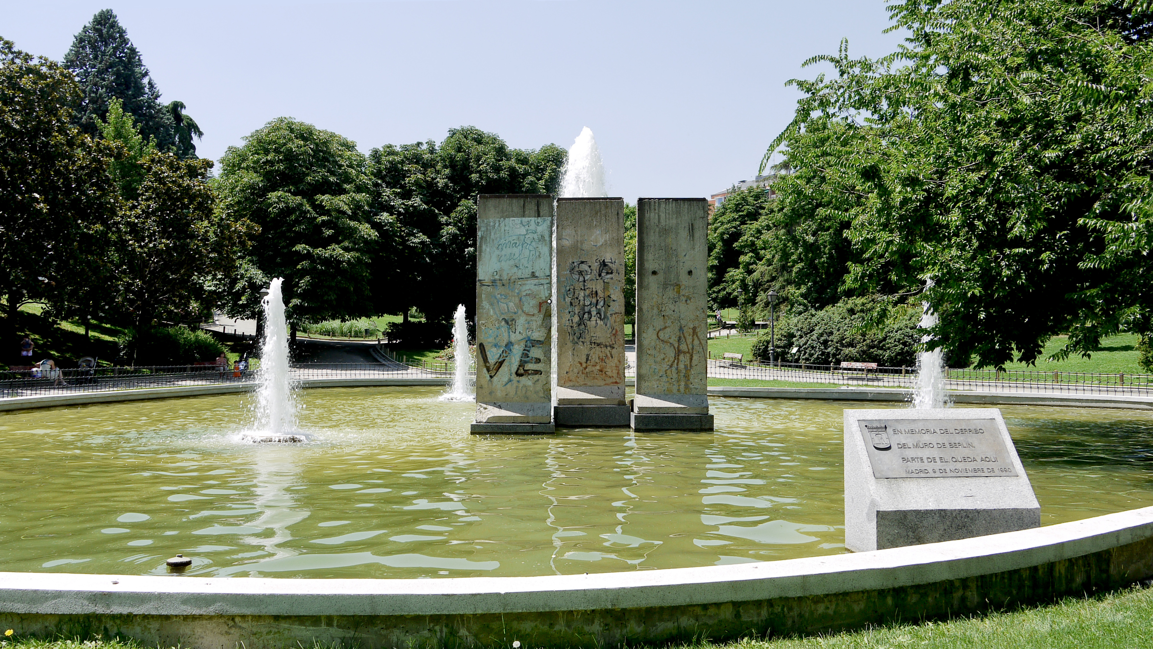 Parque de Berlín, Madrid, Spain. Entrance.